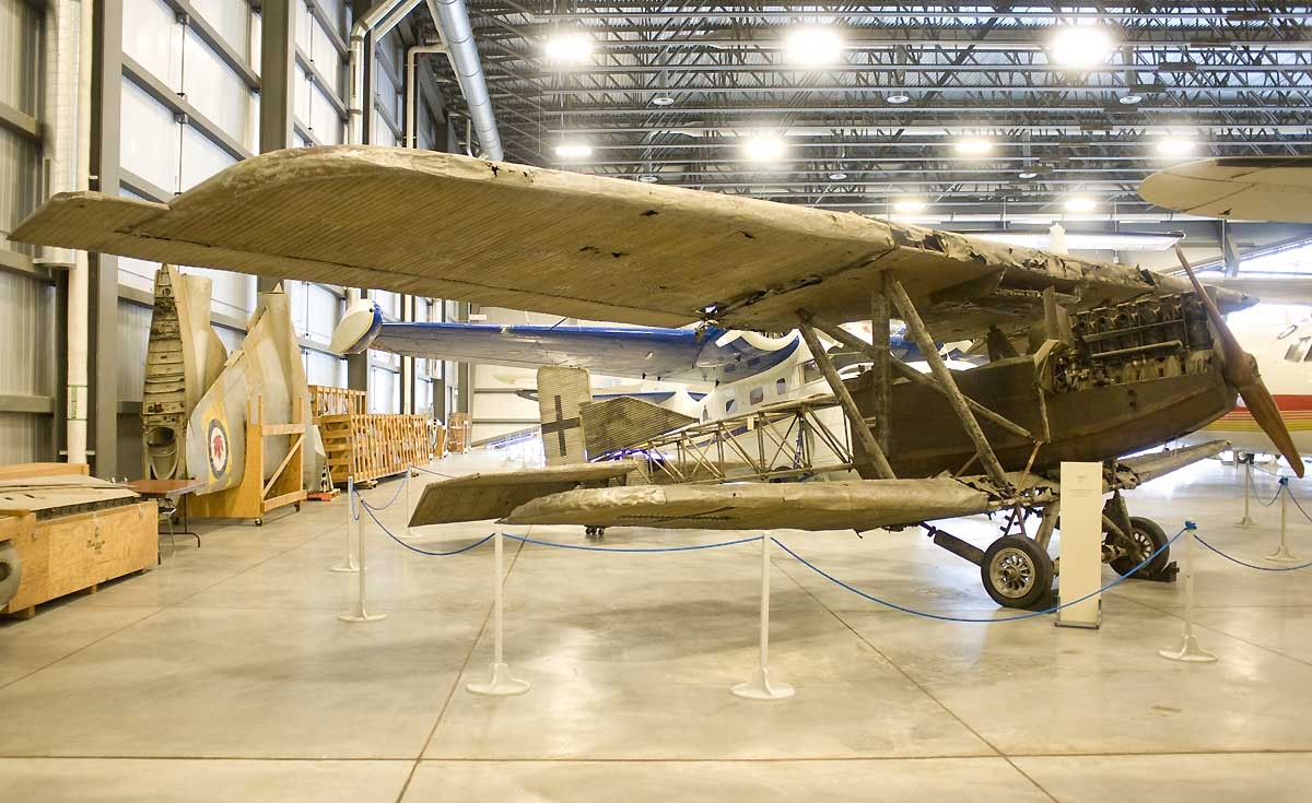 Junkers J.I. (J4) Junkers aircraft (1918) serial# J.I. 586/17 Canada Aviation and Space Museum Ottawa, ON